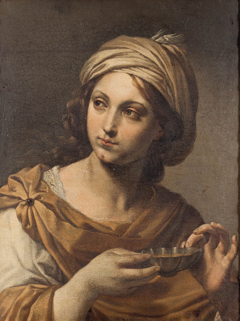 Simone-cantarini---Sofonisba (Fondazione Sorgente Group)